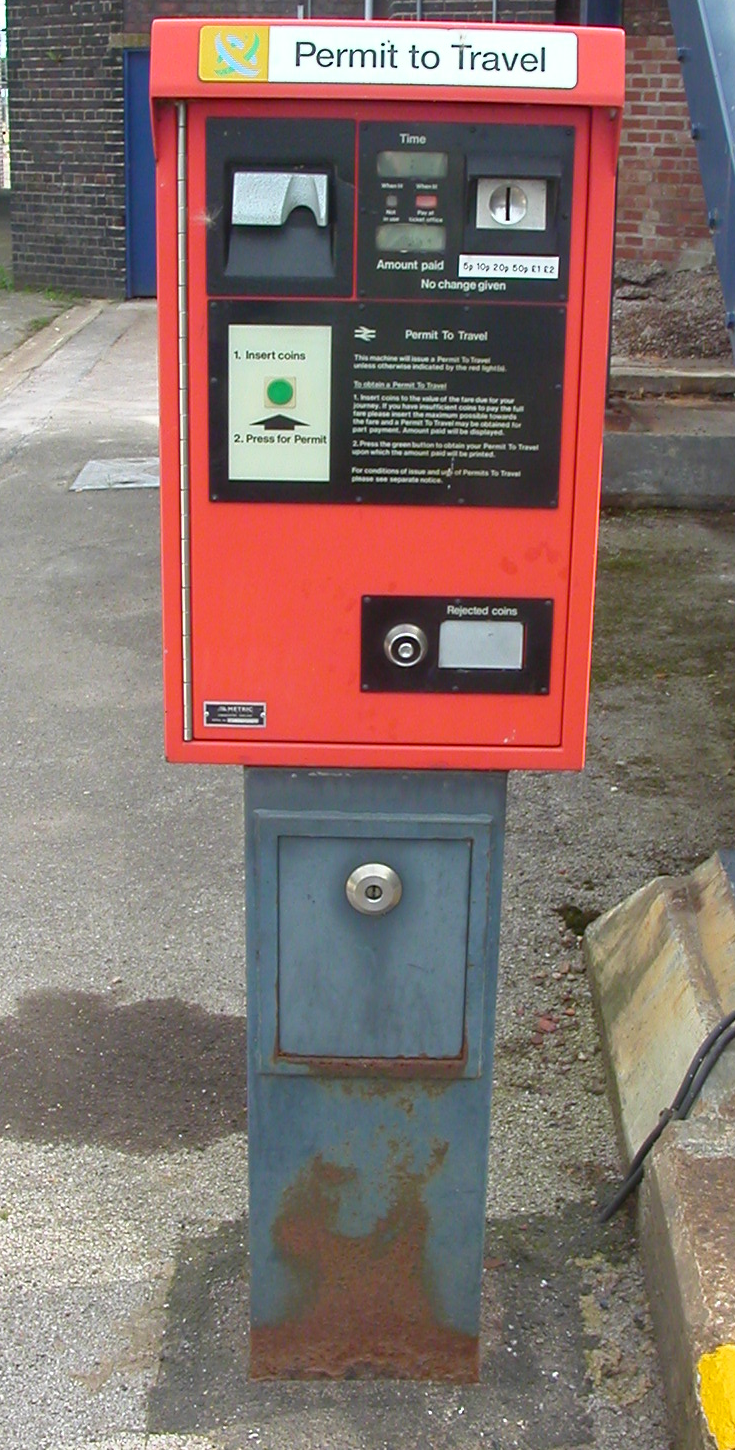 Permit to Travel machine at Lichfield Trent Valley station, photographed by me on 5th September 2006.